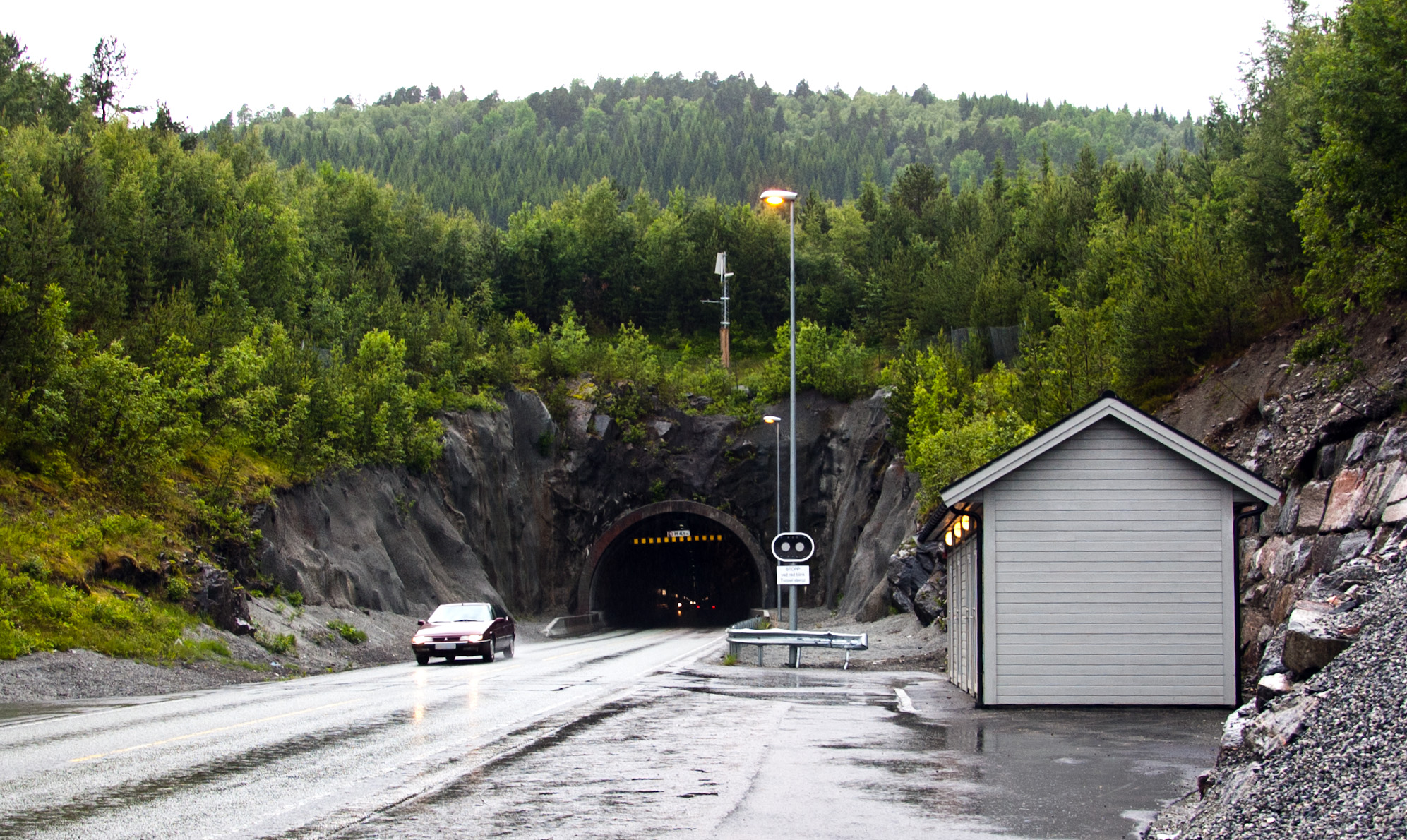 Tussen tunnel on county road 64, southeast entrance in Molde, Møre og Romsdal county, Norway.